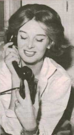 Italian actress Eleonora Rossi Drago receives a phone call during an interview in her house